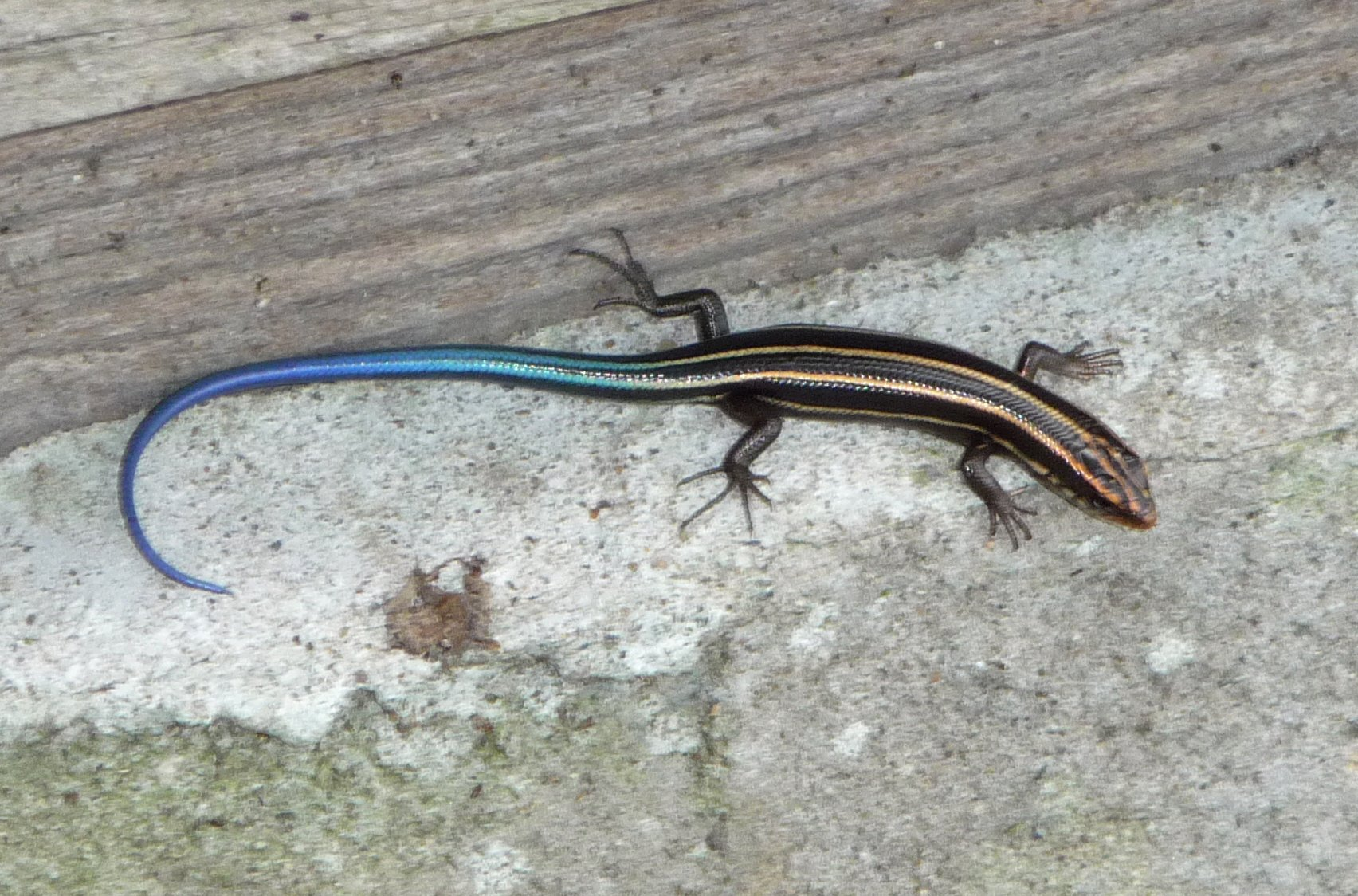 Japanese five-lined skink, 2008 Aug., Kaga, Ishikawa